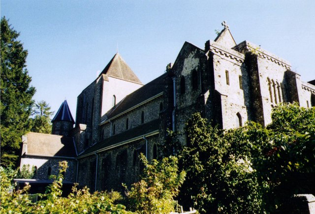 Abbey of Our Lady & St John, Wivelrod, Alton Built in 1929 as Alton Abbey for the Anglican Benedictines.